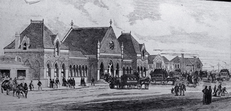 This was designed in 1875 by John Godfrey Warner who was the railway engineer of the Canterbury Provincial Council. The foundation stone for the building was laid by the Provincial Superintendent William Rolleston (1831-1903) on 22 Nov. 1876 and the building opened 21 Dec. 1877. Built of red brick with Cass Peak and White Rock stone facings, at the time of its construction it was regarded as an outstanding example of Gothic architecture. It was demolished to make way for a new railway station in 1959.